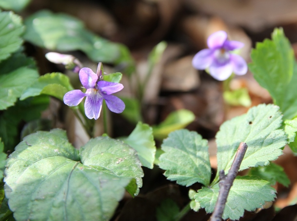 Sweet violet (Viola odorata) at Nine Wells, April 2016